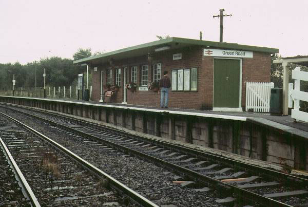 Green Road railway station